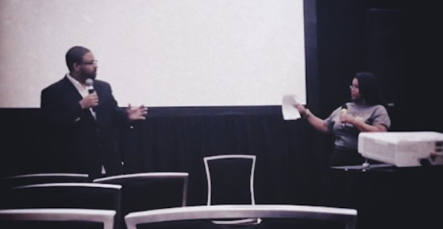 Filmmaker Max Cole (Max Cole Films) explains the importance of Alone at Midnight.